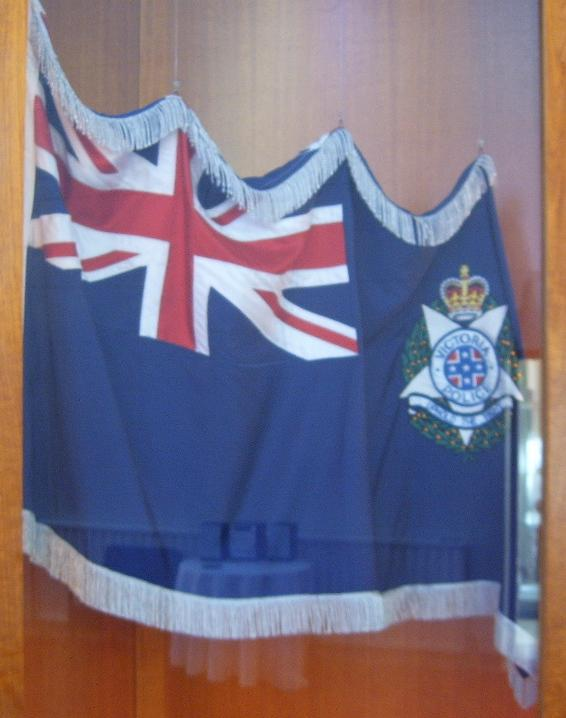 Ensign of the Victoria Police, held in the main Chapel of the Victoria Police Academy, Glen Waverley, in the eastern suburbs of Melbourne, Victoria, Australia.